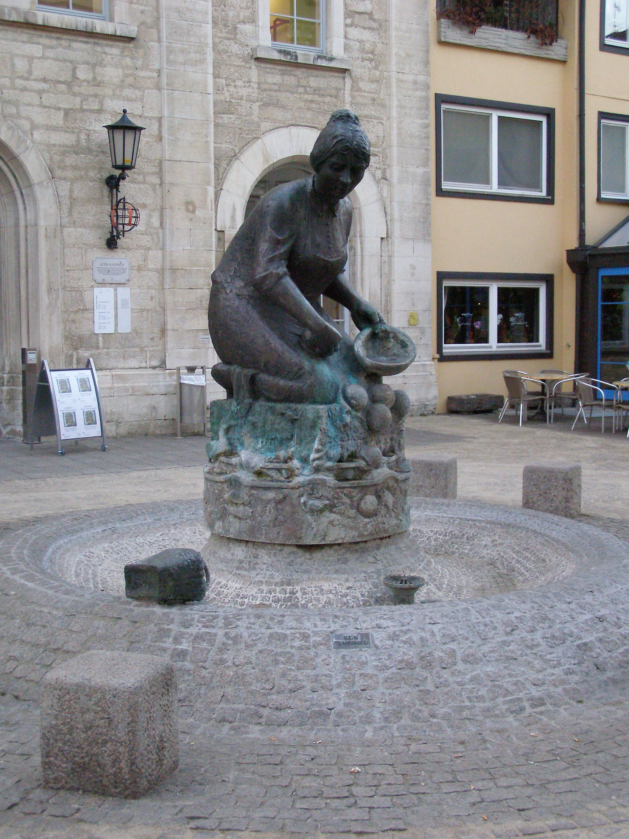 Heidenheim an der Brenz - the fountain in front of the Old Town Hall (Knöpfleswäscherin-Brunnen)